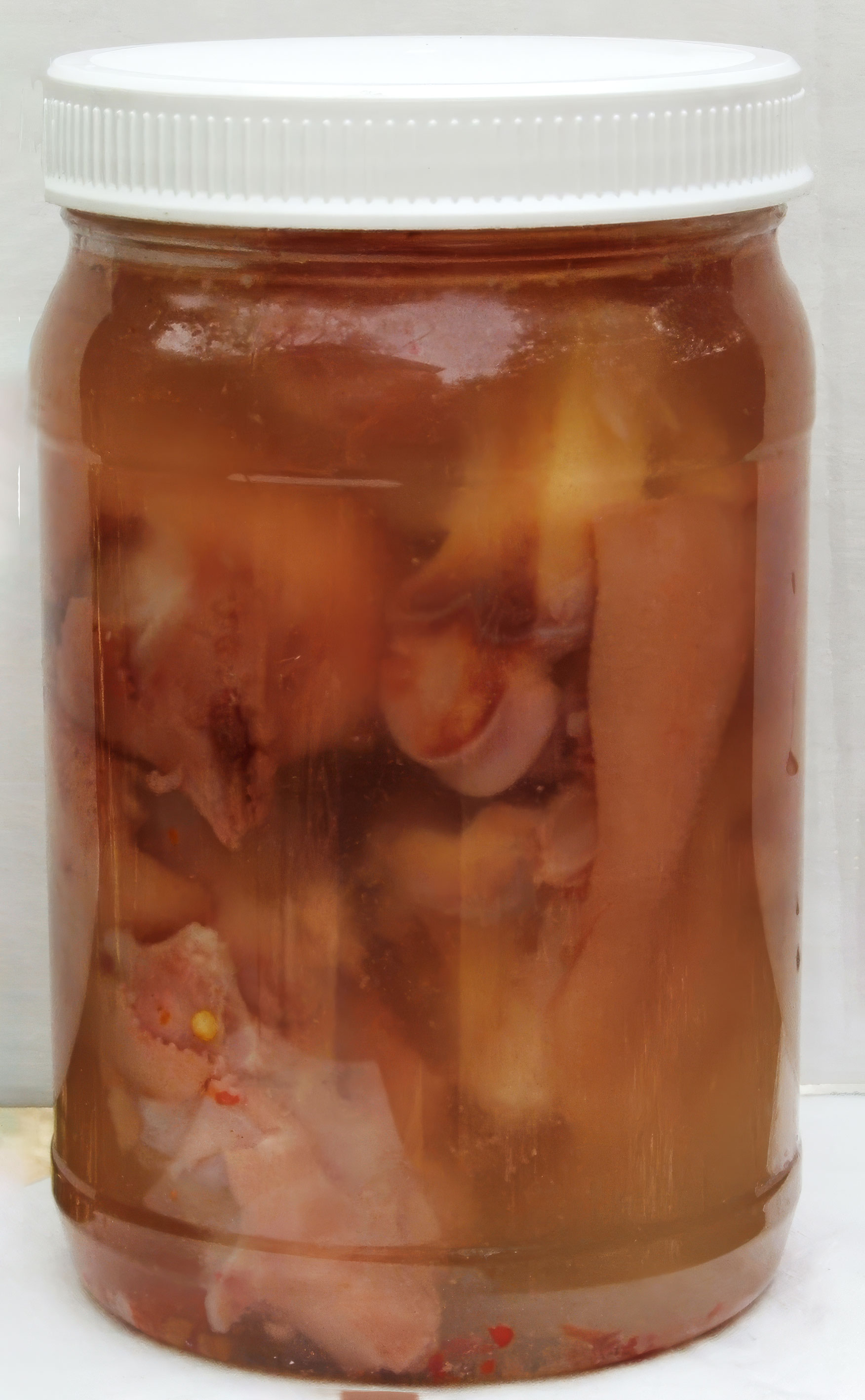 Jar of pickled pigs feet